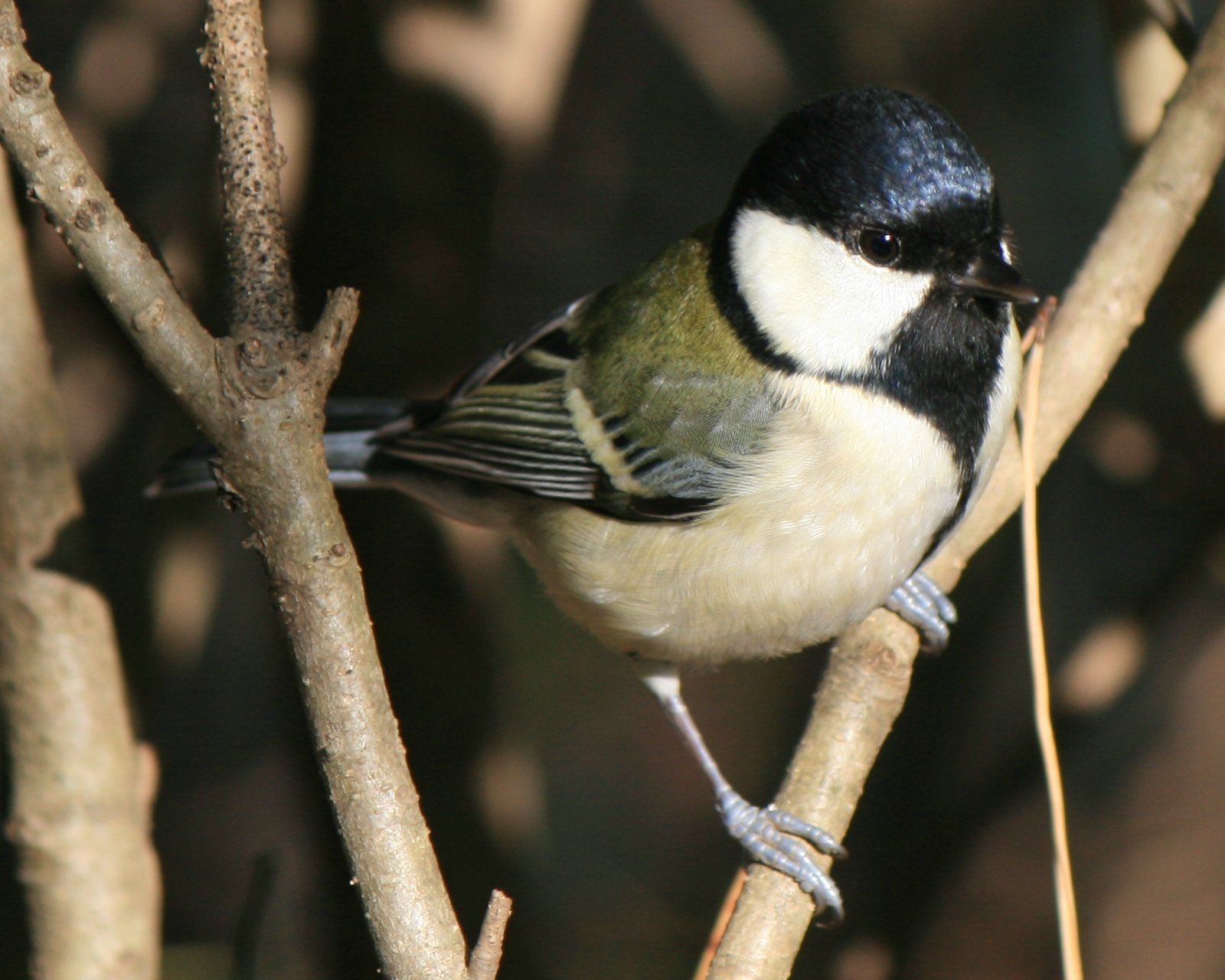 Parus minor (Japanese Tit), female in Japan.